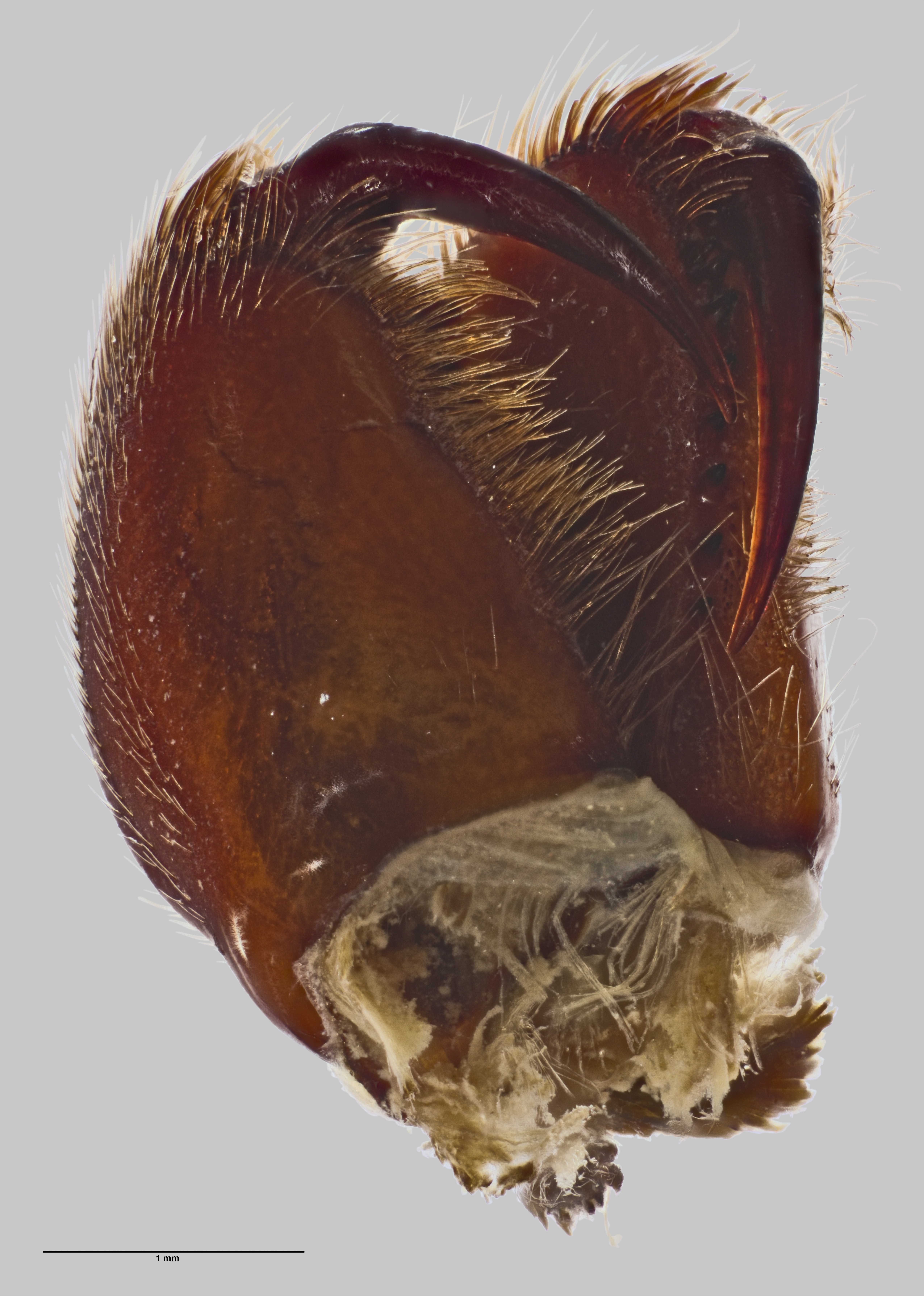 Fangs of the female holotype specimen of Stanwellia hapua AMNZ5044 held at the Auckland War Memorial Museum.